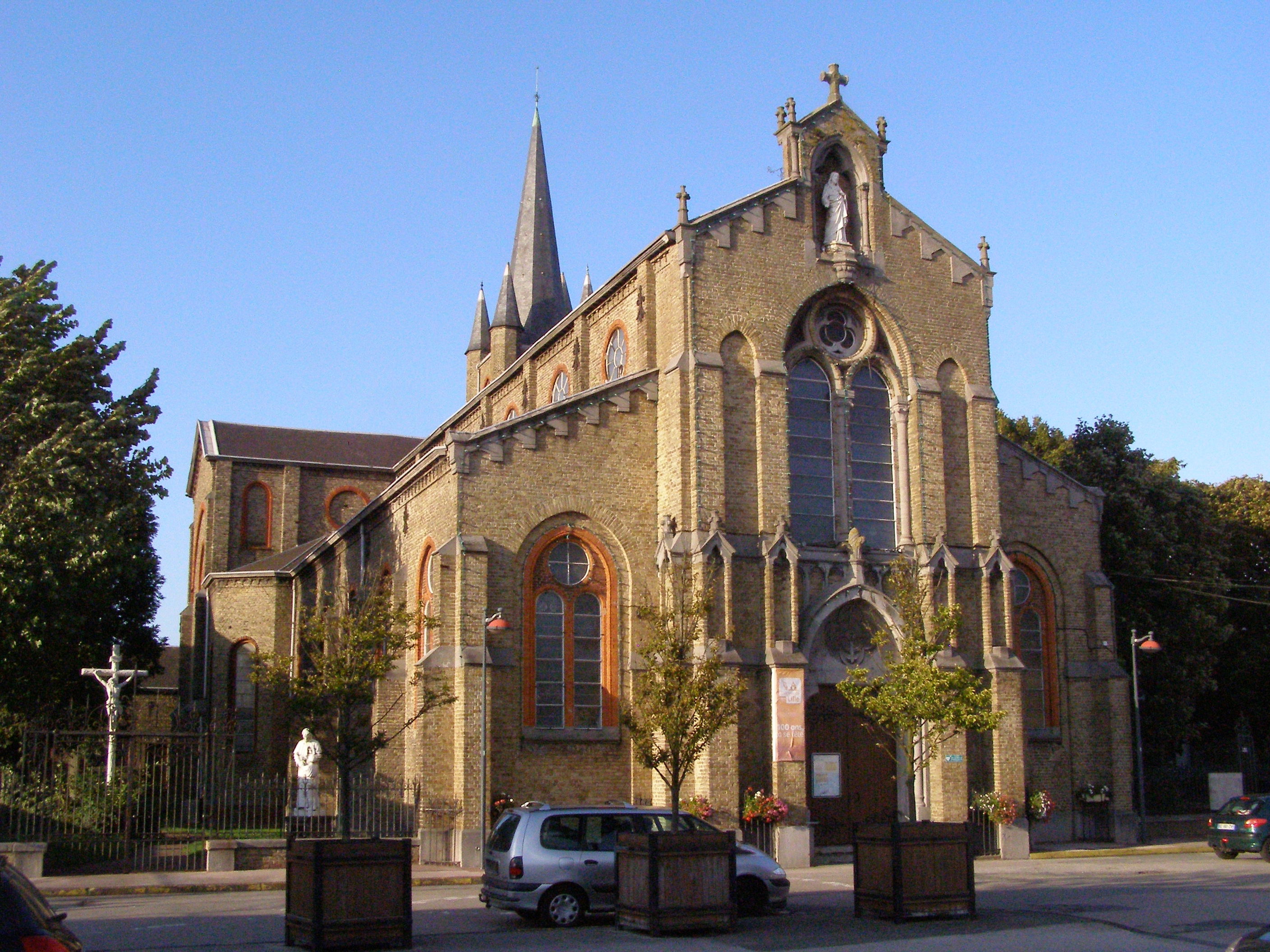 Saint-Pol-sur-Mer - St. Benedict church